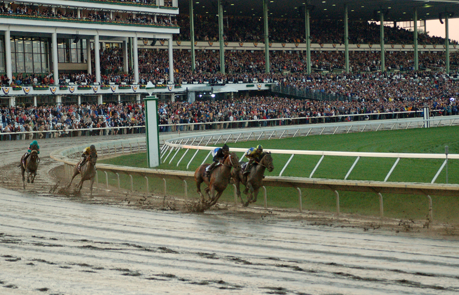 Curlin, Street Sense, Awesome Gem and Tiago holding up the rear at the first turn of the 2007 Breeder's Cup Classic powered by Dodge, at Monmouth Park New Jersey.